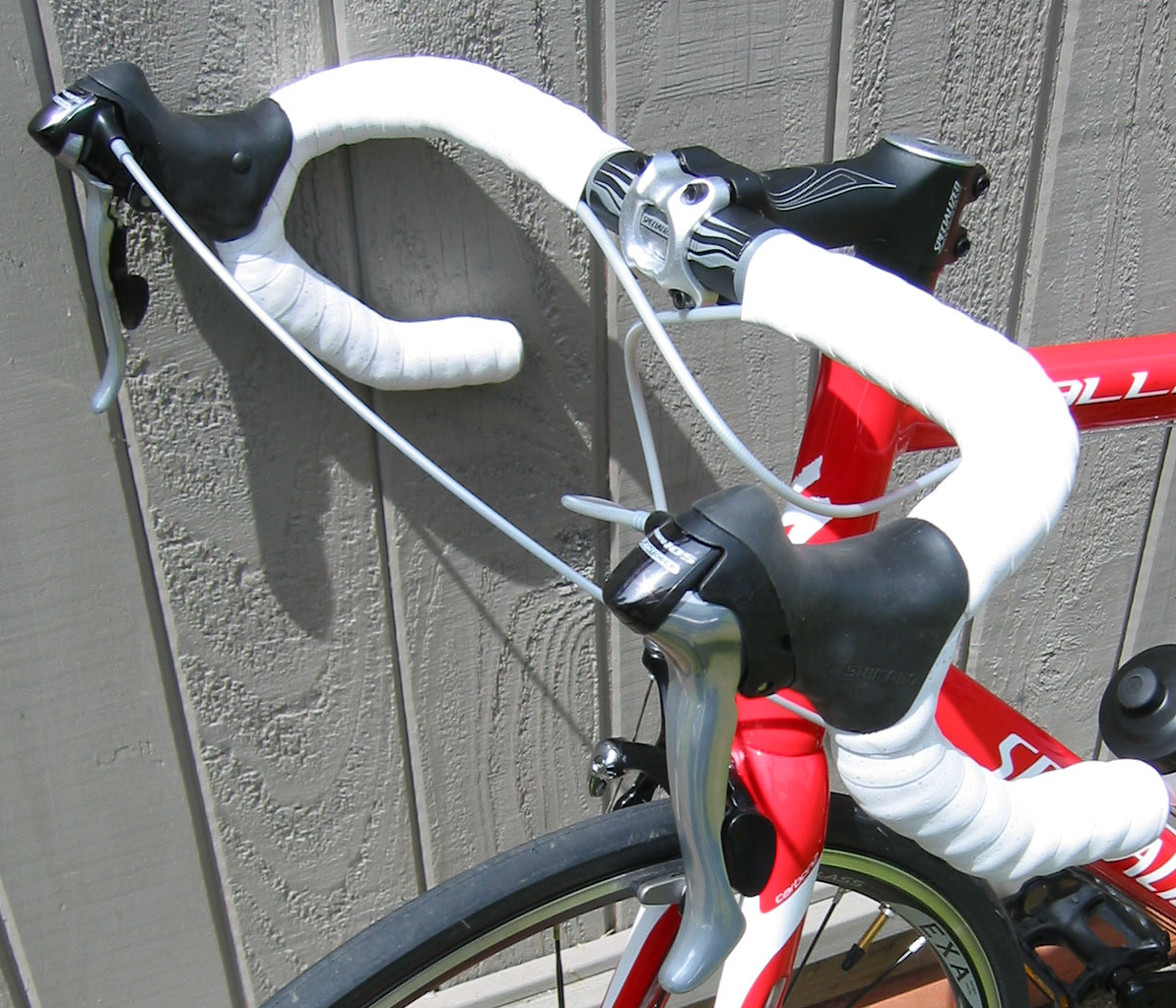 Shimano 105 5500 series brake lever/shifter set Photo taken by thewalrus July 2005.